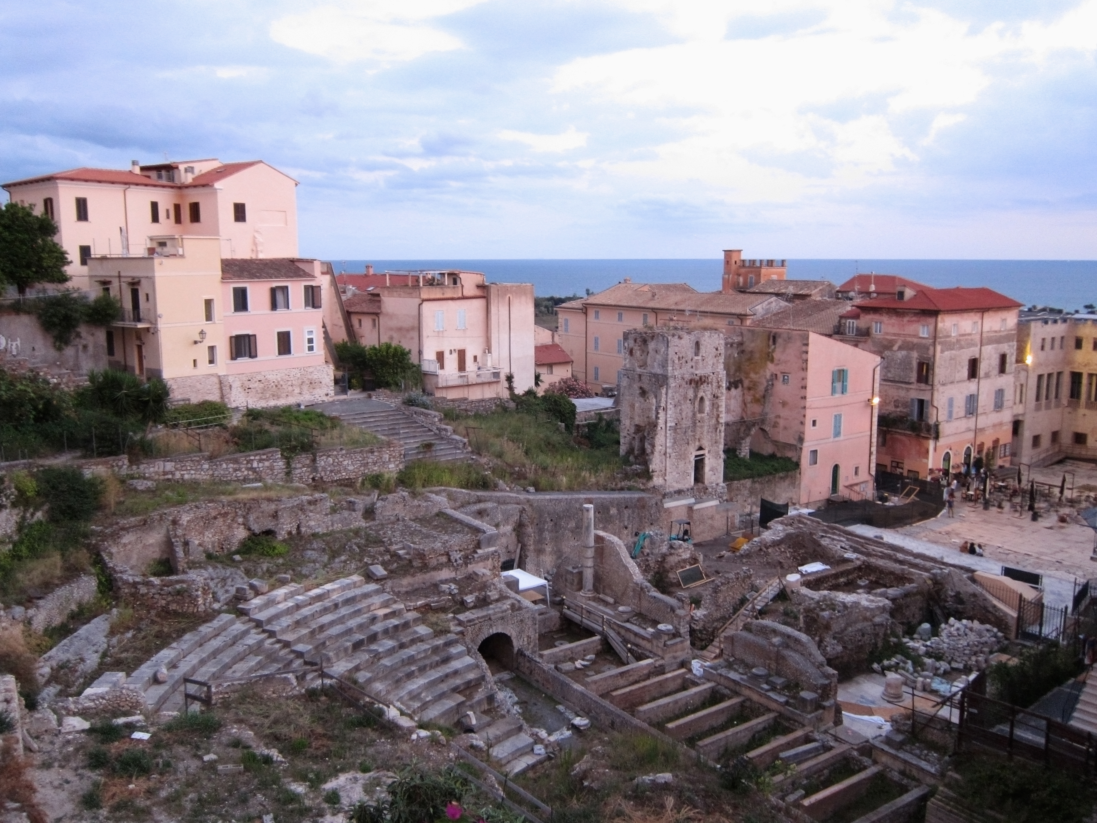 The ancient roman theathre in the city of Terracina in Italy. The archeology work is still going on as you can see in the picture. The thathre is located at the urban sqaure Piazza del Municipio of Terracina old town. The picture is taken on the 17th of July in 2020.